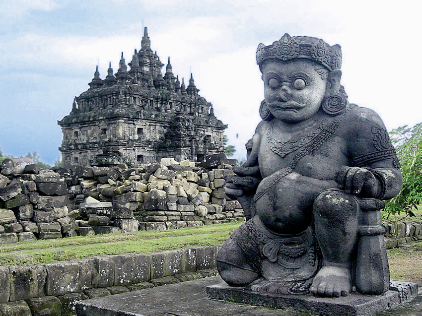 One of the giant guardians (Dwarapala) guarding the front of Candi Plaosan, a ninth century Buddhist temple in Klaten, Central Java.